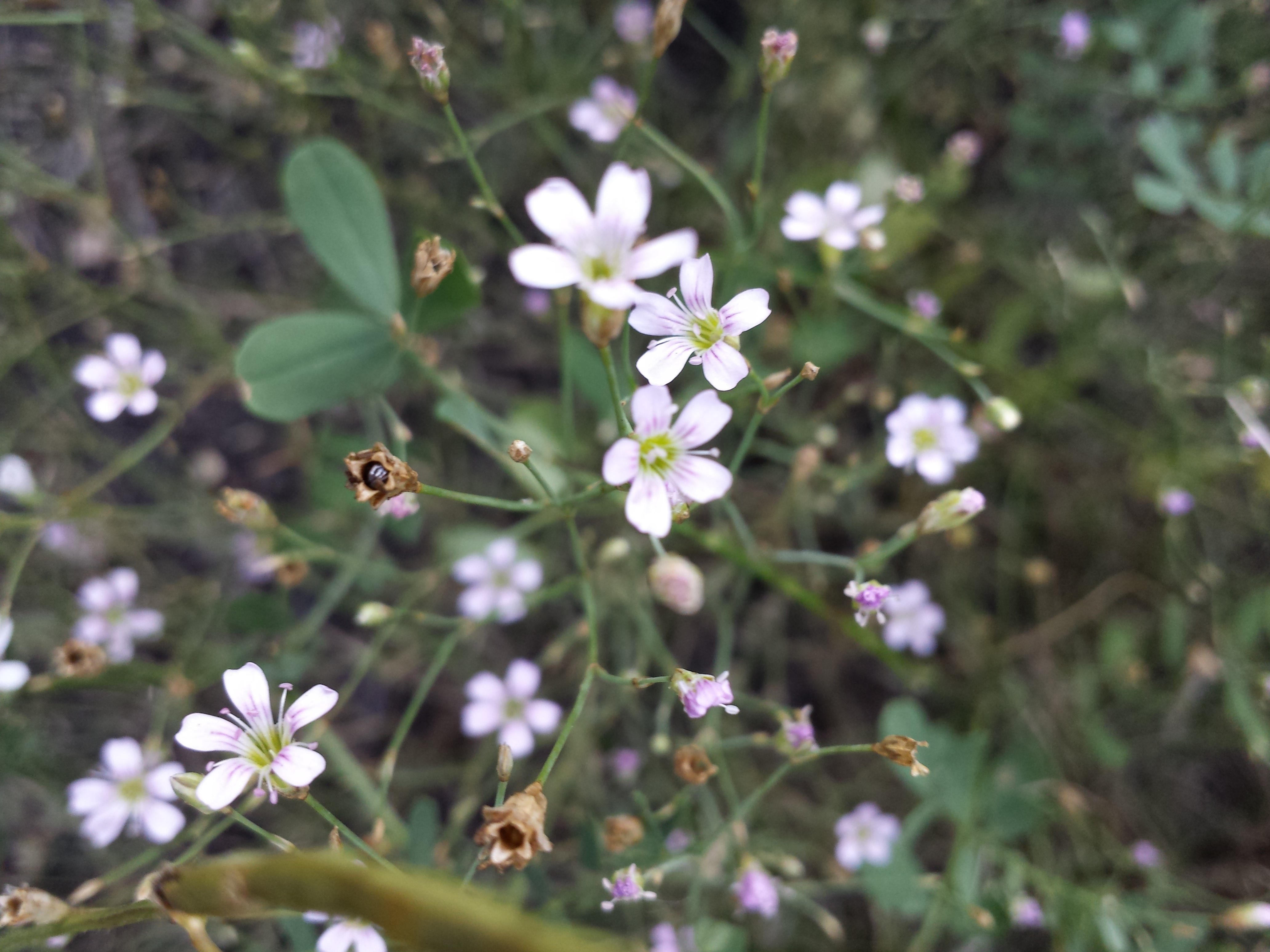 Habitus Taxon: Petrorhagia saxifraga (sensu Fischer et al. EfÖLS 2008 ISBN 978-3-85474-187-9) Location: old marshalling yard Breitenlee, Vienna-Donaustadt - ca. 160 m a.s.l. Habitat: sandy, dry clearance